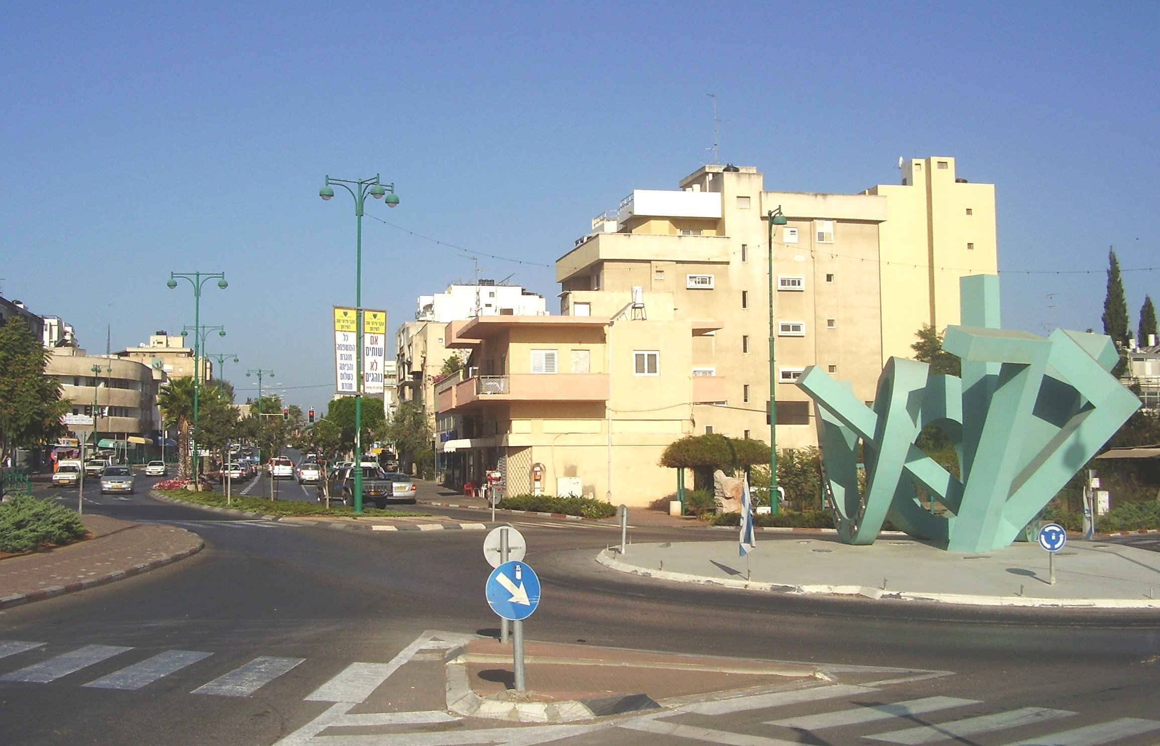 The Tisha (nine) circle, and HaNasi Weitzman street, Hadera, Israel